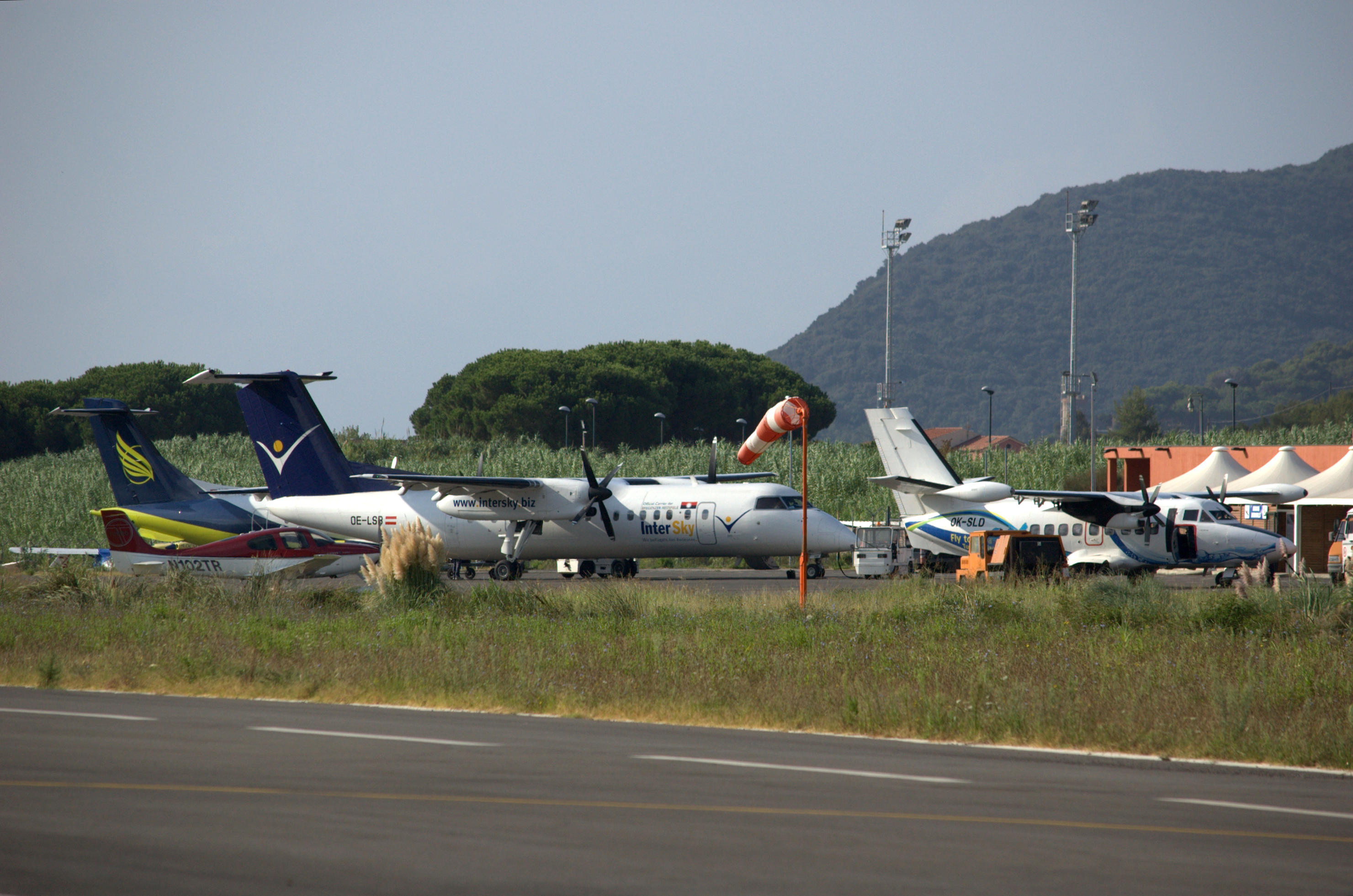 The three biggest airlines on the Airport.